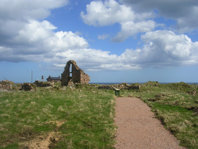 Ruins of Boddam Castle These ruins are all that remains of 16th Century Boddam Castle. The lighthouse at Boddam can be seen in the background (see NK1342).